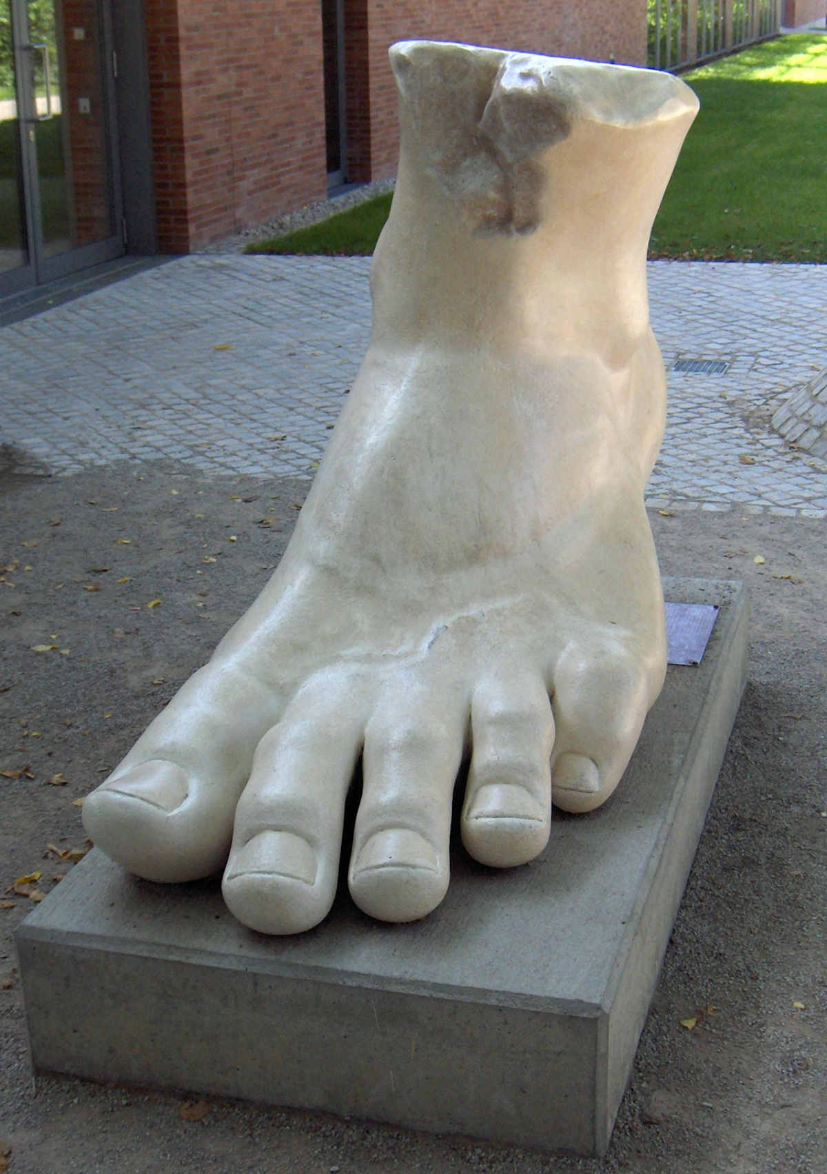 Trier. Modern copy of the foot of colossal statue of Constantine I (the original artwork is in Rome).